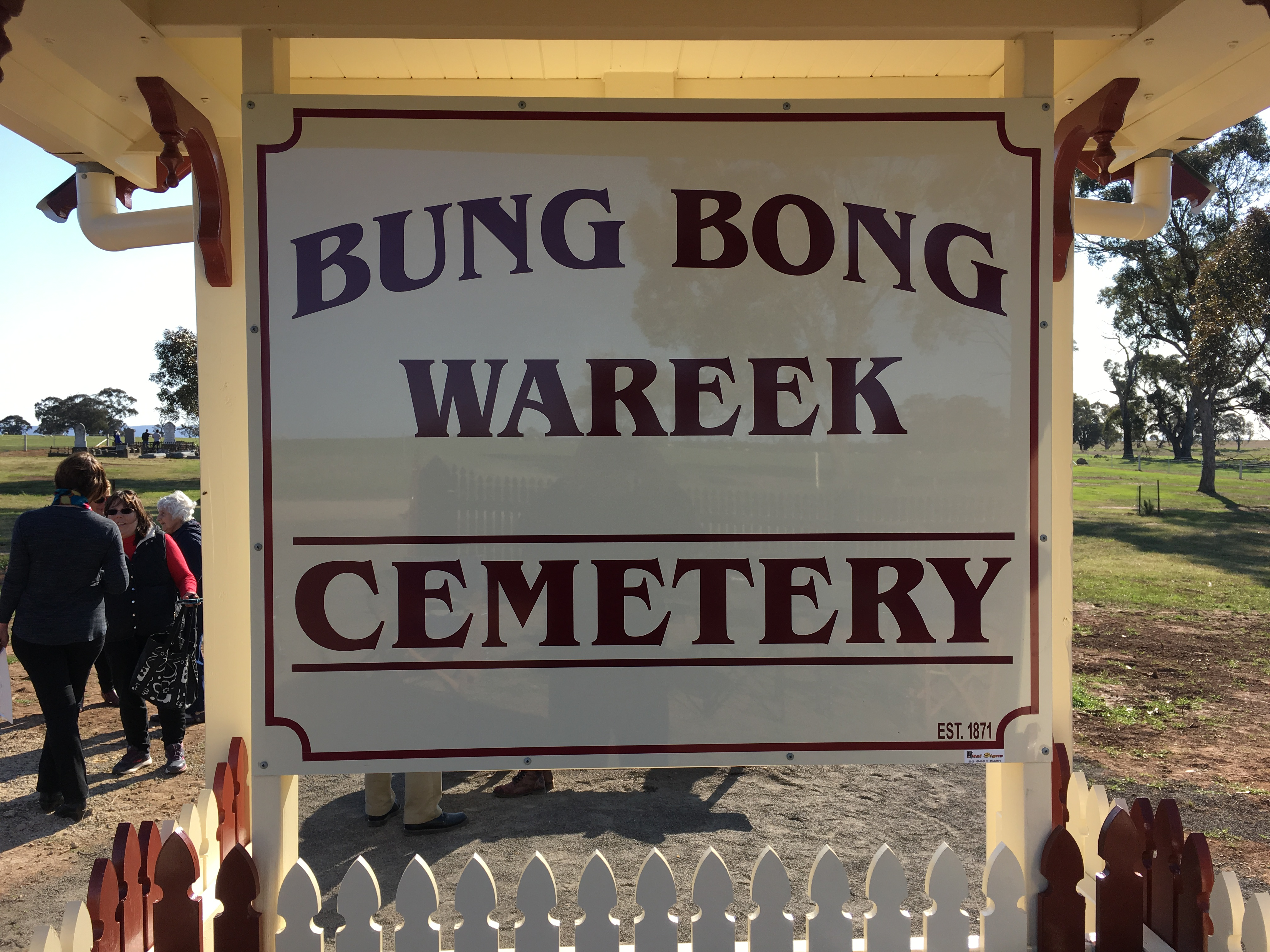 Bung Bong Victoria Cemetery sign